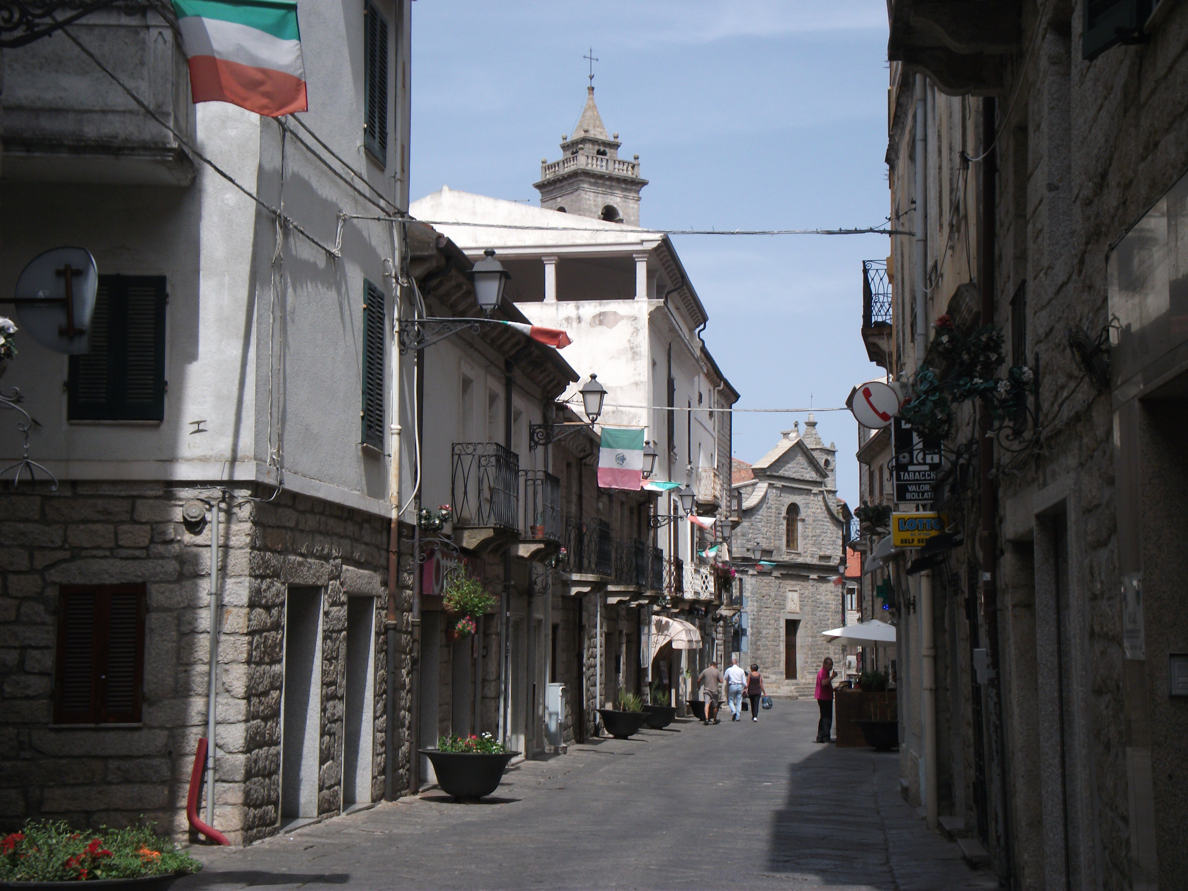 Tempio Pausania, a street